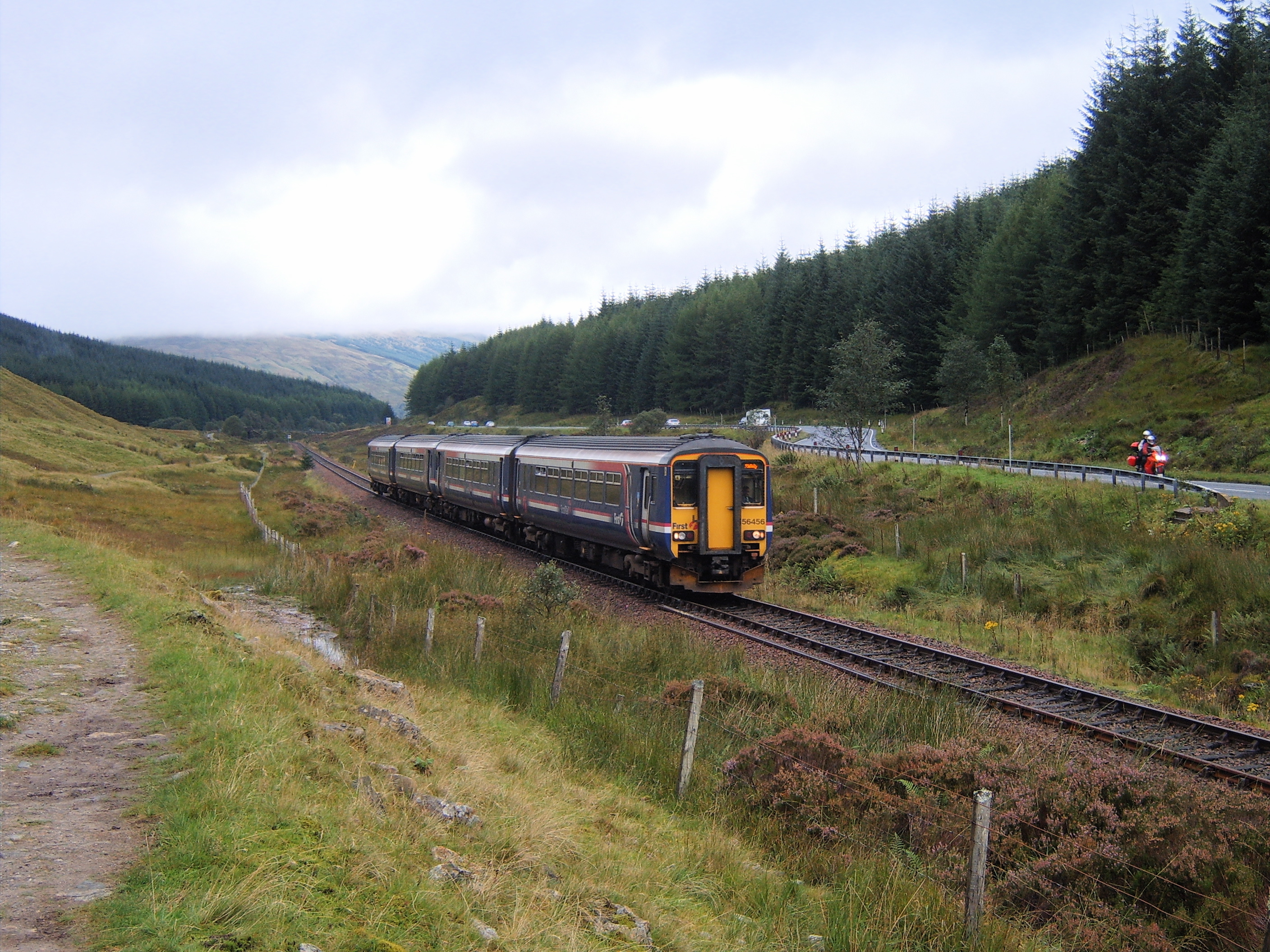 Taken during a walking holiday along the West Highland Way, the path runs close to the West Highland line for a section between Tyndrum and Bridge of Orchy. Unfortunately the A9 also parallels at this point but I can honestly say no road vehicles were utilised in obtaining this shot and was a good two hours into the walk for the day complete with back pack. We were about the only walkers we met on this trip (and there were many of them!) that carried our bags with us. Most pay to use a carrying service. This view of 156.456 in formation with another set was seen working a service from Glasgow Queen Street through to Mallaig. seen around midday on 13 September 2008. Any help to pin point the train details would be appreciated.